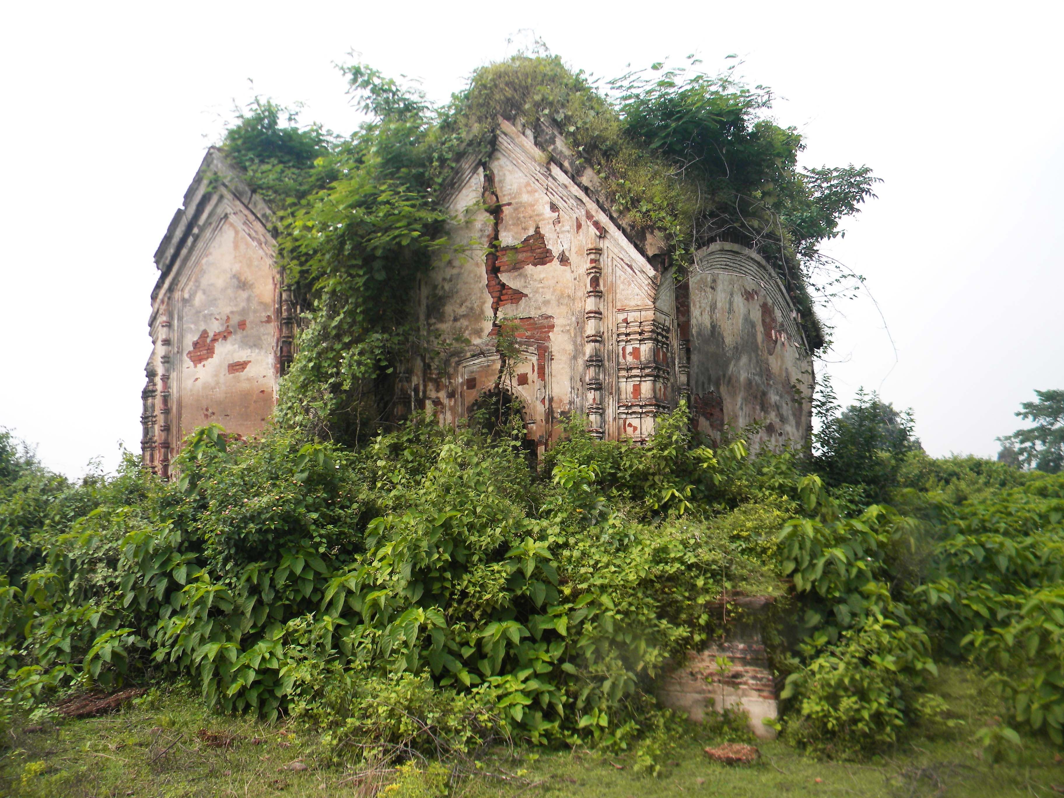 Jor Bangla Temple at Garh Panchakot, Purulia District, West Bengal, India